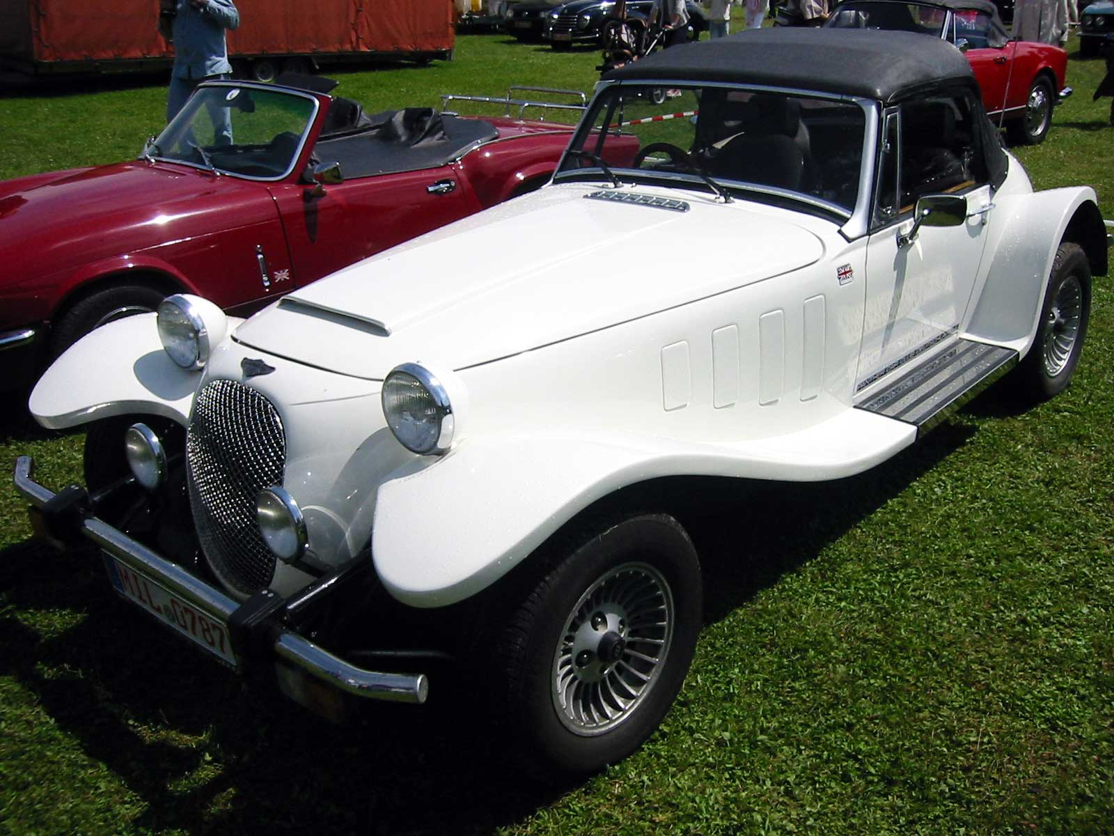 Panther Kallista